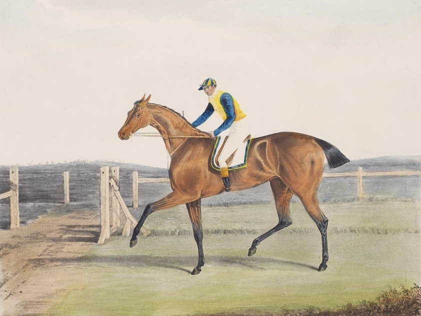 Painting of the British racehorse The Duchess (c. 1816) by John Frederick Herring, Sr. (1795-1865). Artist dead for 147 years.